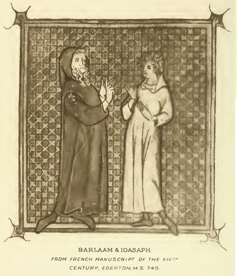 Barlaam and Josaphat